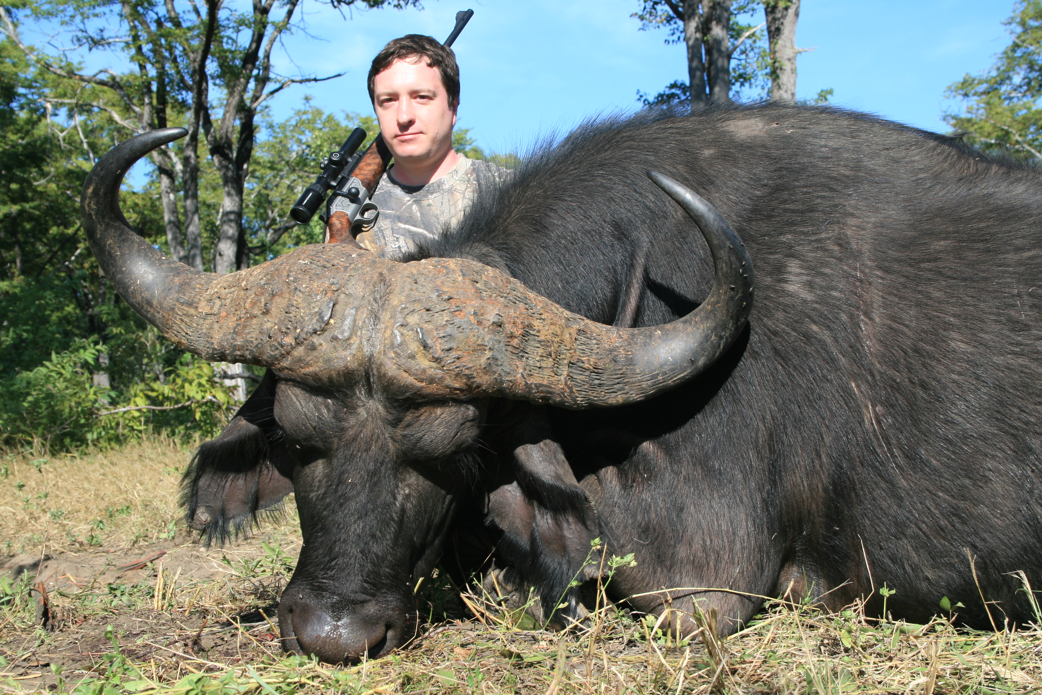 Cape Buffalo Trophy, 41-inch Horns, Zambia